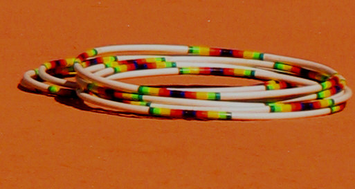 These are hoops used by native American hoop dancers at the 2005 National Hoop Dancing Championship at the Heard Museum in Phoenix, Arizona.